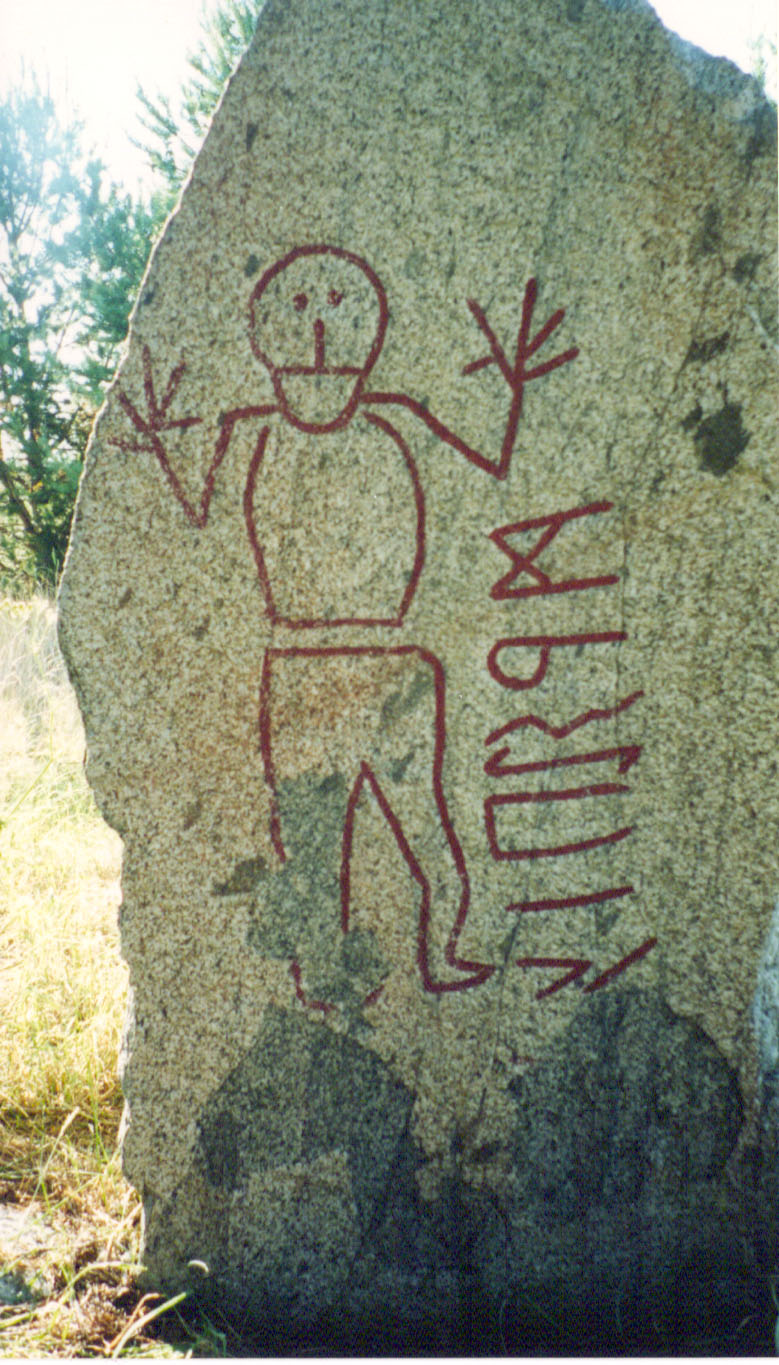 Krogsta runestone (U 1125), 6th century. First described by Johannes Bureu in 1594. The inscription reads mwsïeij (uninterpretable). On the right face is an additional sïainaz, probably for stainaz "stone".